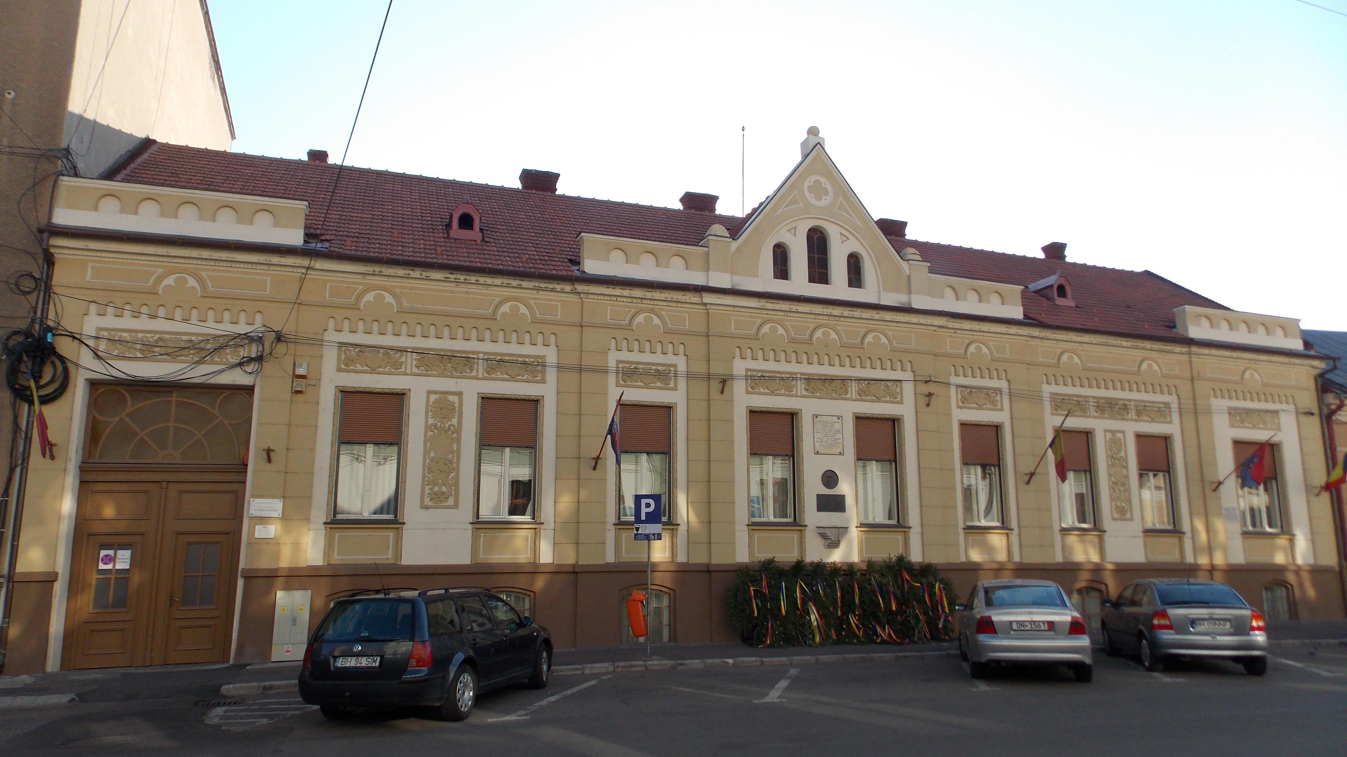 Aurel Lazar Museum - Oradea, RomaniaRomână: Muzeul Memorial Aurel Lazar - Oradea